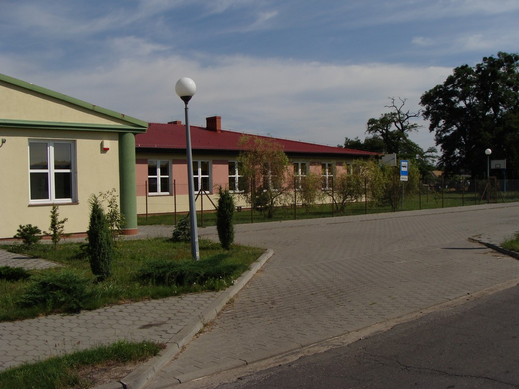 Dąbrowa, Group of Primary School and Gymnasium of name of John Paul II.